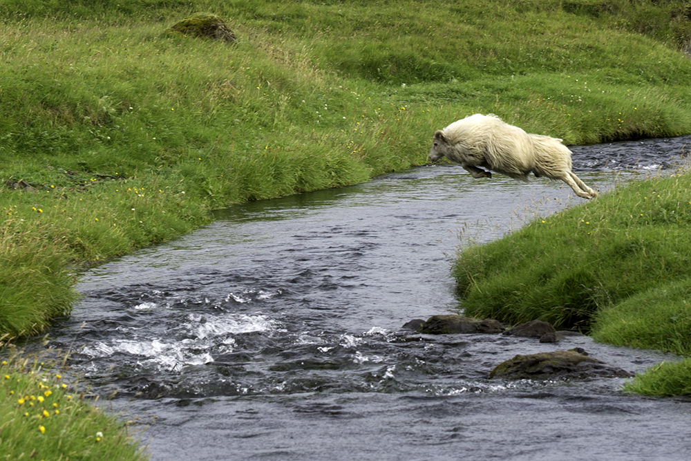 Icelandic Sheep